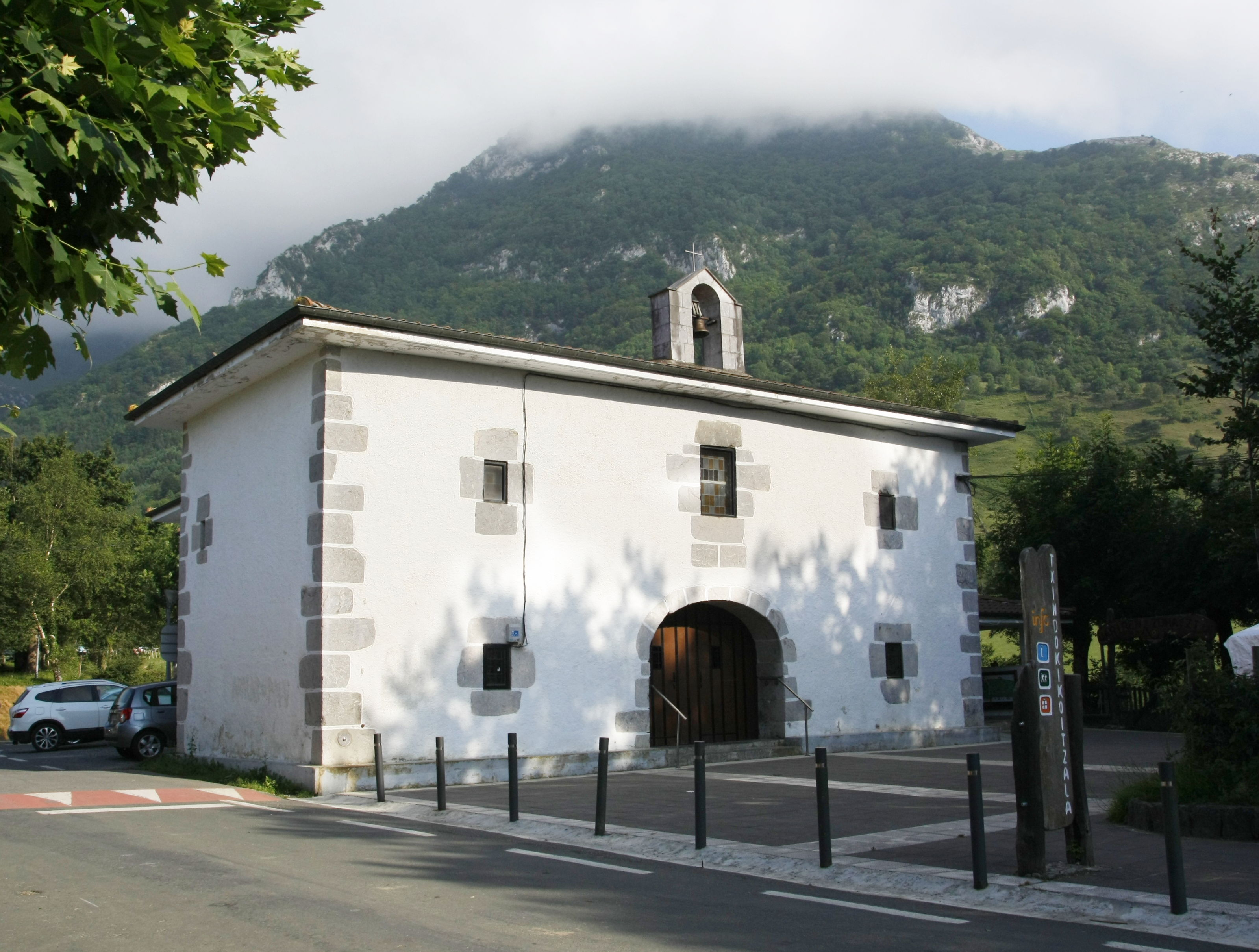 Larraitz chapel